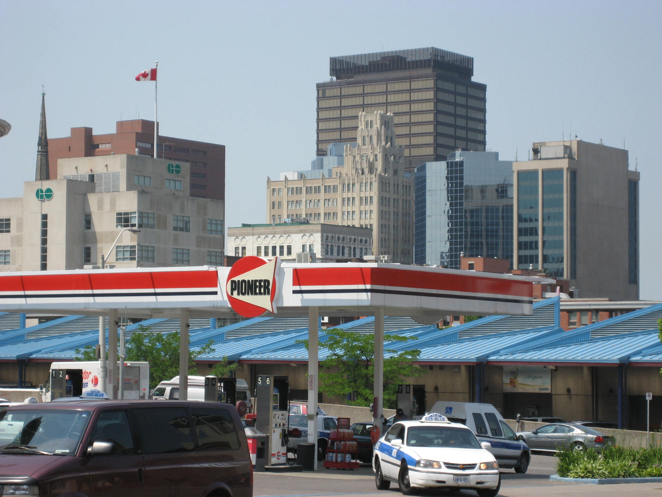 John Street South, downtown, Hamilton, Ontario